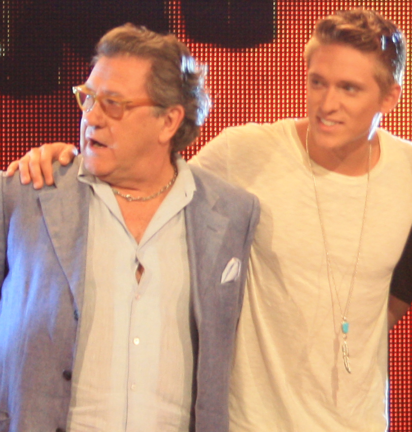 Tommy Körberg and Danny Saucedo.